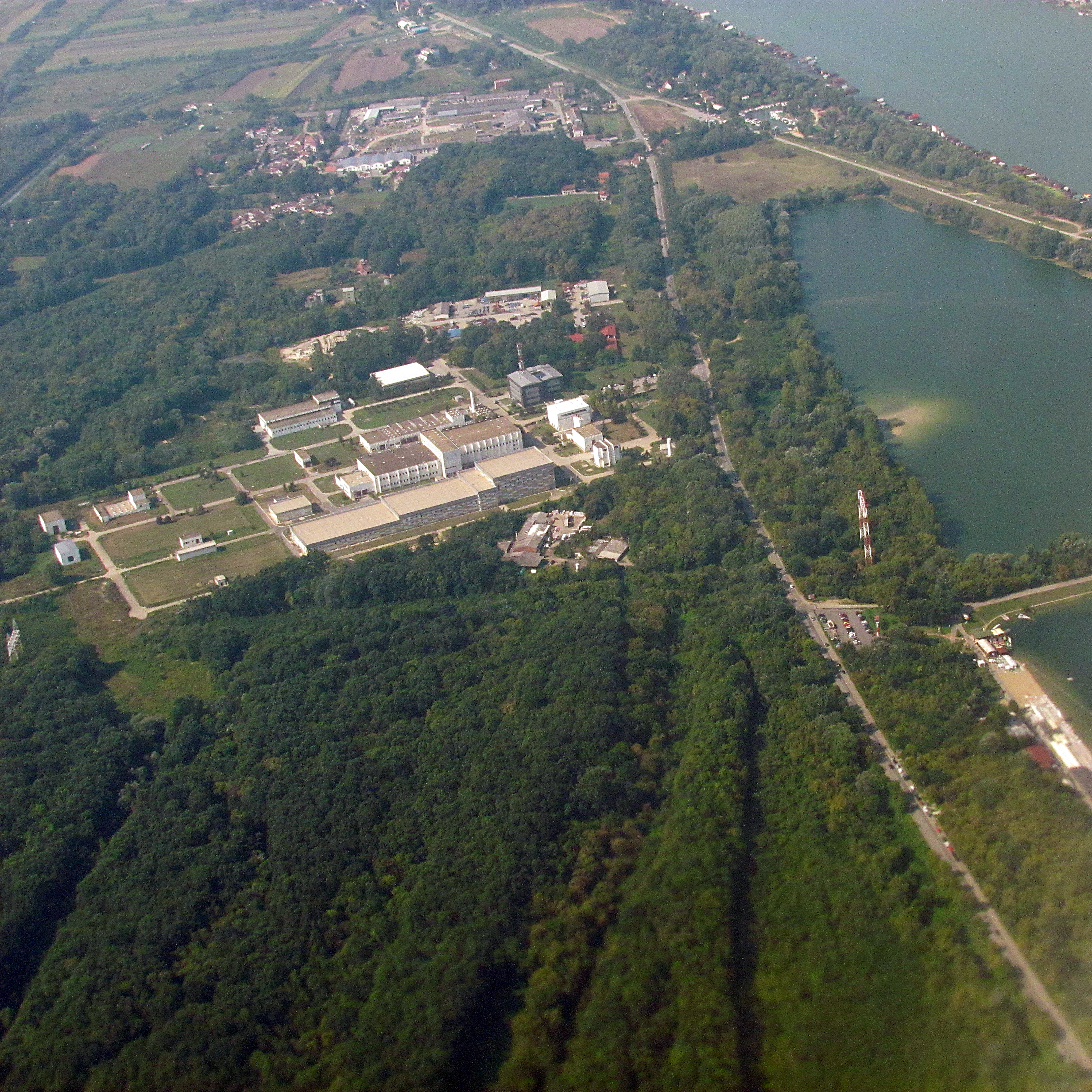 Water supply buildings in Makiš, Belgrade